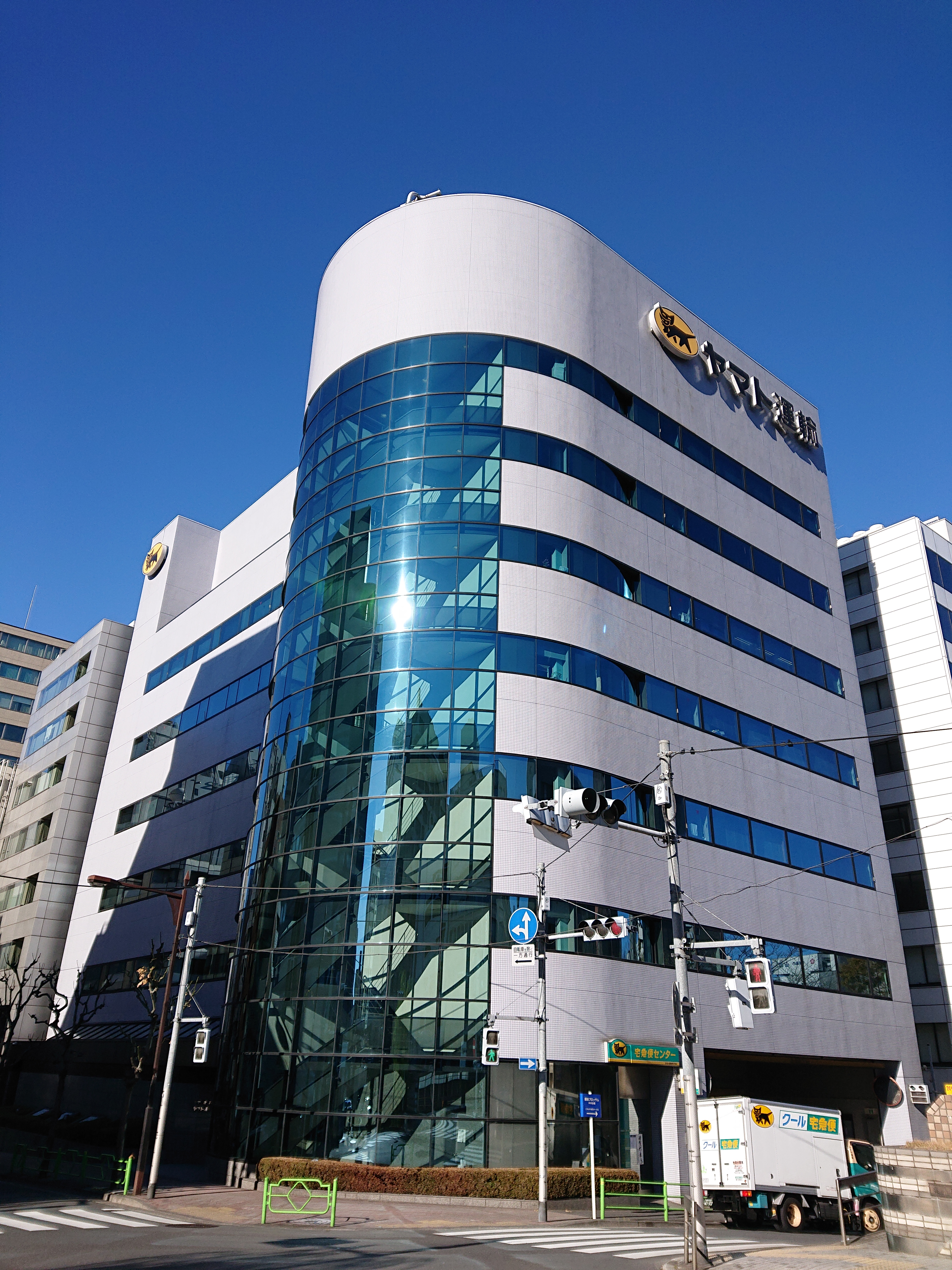 Headquarters of Yamato Holdings Co., Ltd. (ヤマトホールディングス) and Yamato Transport Co., Ltd. (ヤマト運輸), located at 2-16-10 Ginza, Chuo, Tokyo, Japan